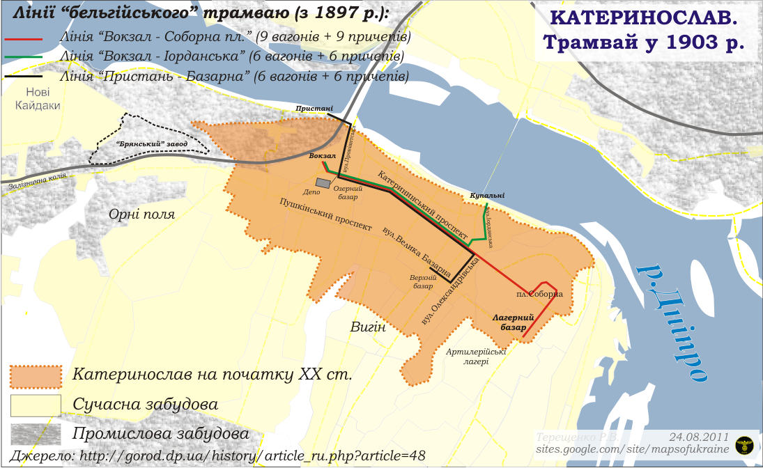 Scheme tram ("Belgian") in Dnipropetrovsk (Yekaterinoslav) at the beginning of XX century.